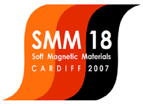 Logo of 18th Soft Magnetic Materials Conference